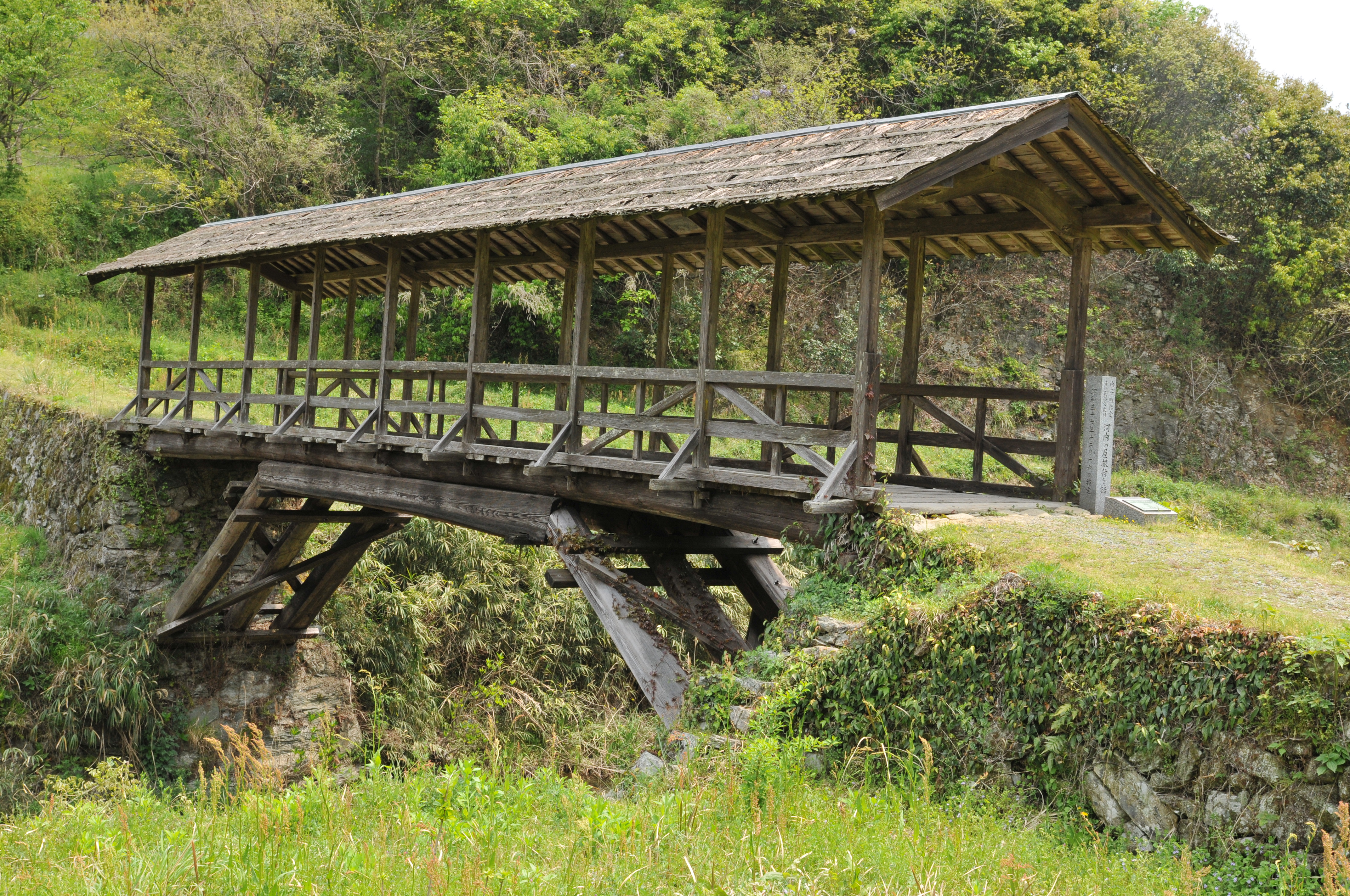 Tamaru bridge, Uchiko, Ehime